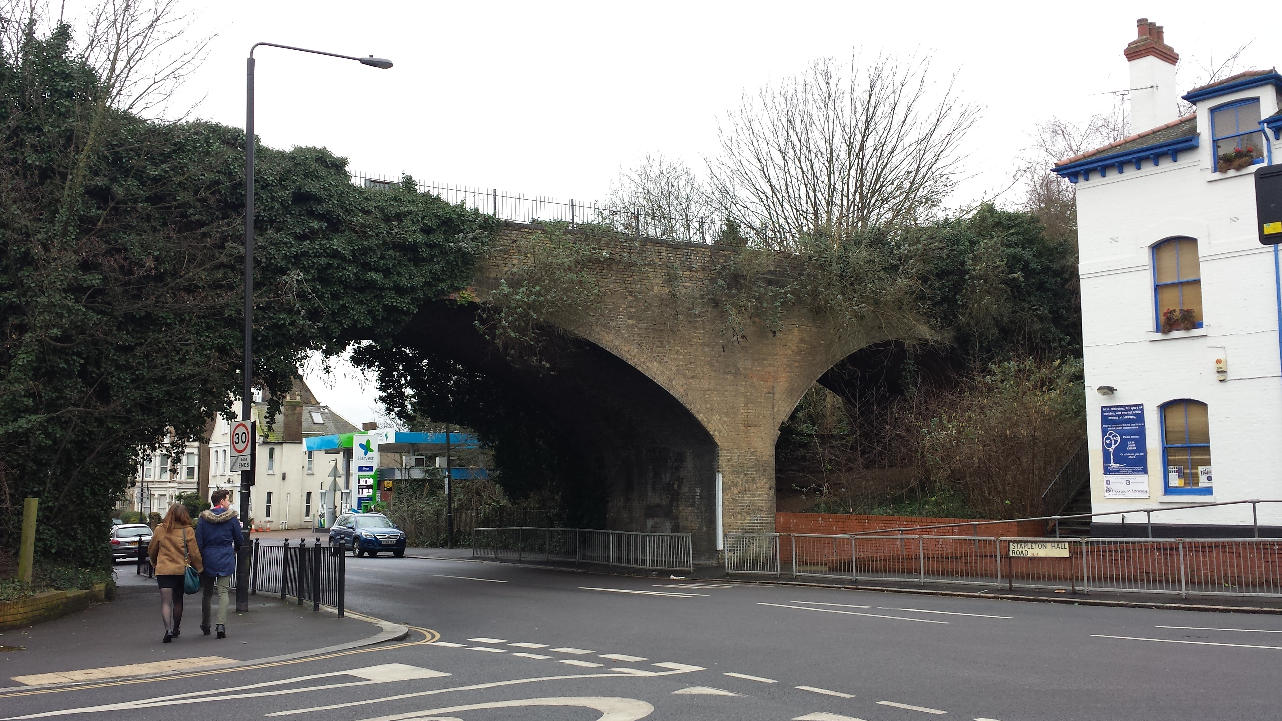 The site of Stroud Green railway station. The platforms were on the bridge, whilst the white building to the right was the station master's house. Today the Parkland Walk cycle and footpath crosses over the bridge.